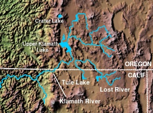 Lost River © 2004 Matthew Trump